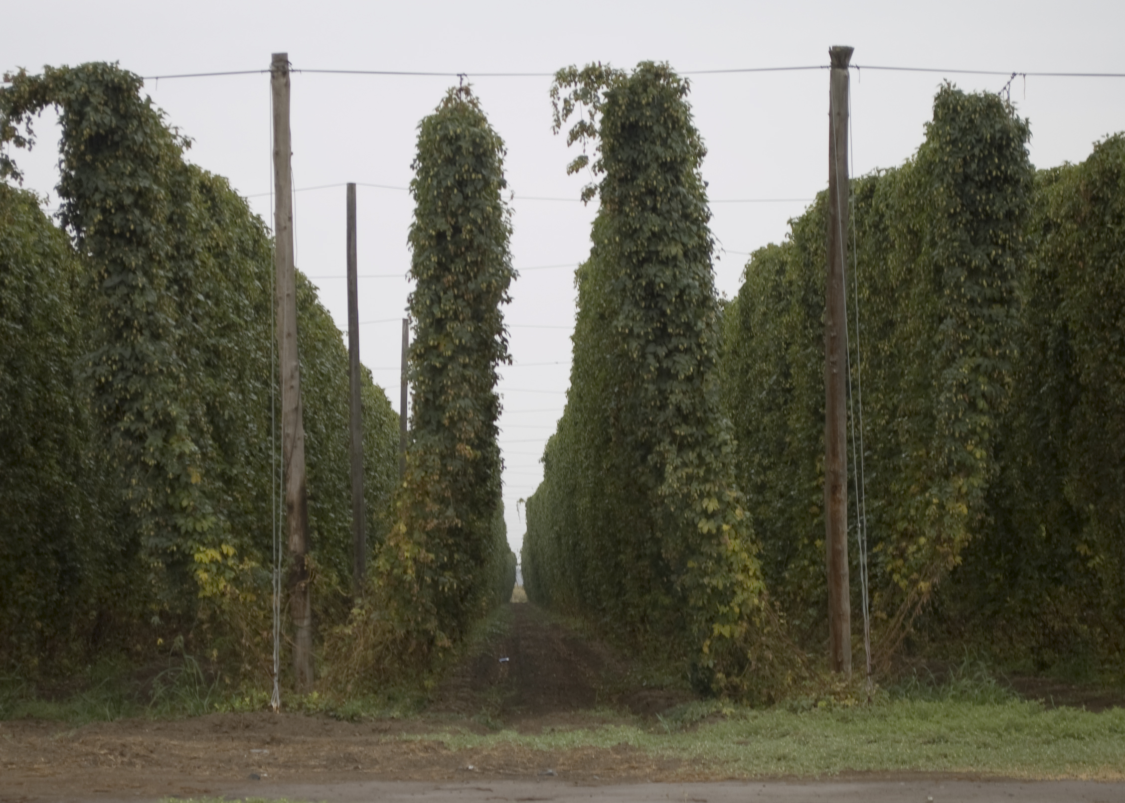 Hops ready for harvest on the Yakima Indian Reservation in Washington State.